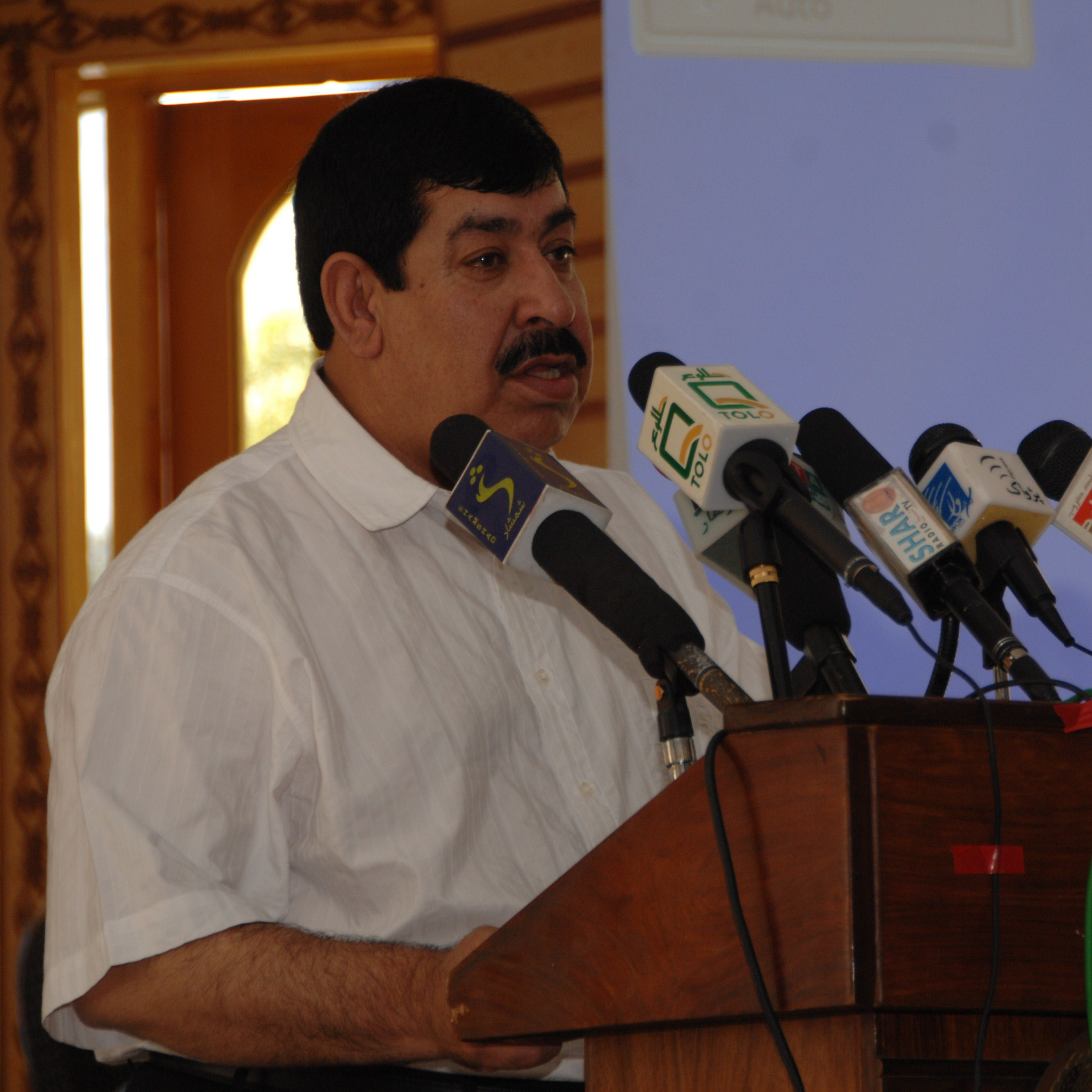 VIRIN: 091011-A-8560C-036 (CROPPED VERSION) Governor of Afghanistan's Nangarhar province takes the podium, while attending the Rule of Law Conference for Eastern Afghanistan, in Jalalabad, Afghanistan, Oct. 11, 2009. The conference allowed several law enforcement agencies to gather and discuss future changes to afghan laws, the court system, and enforcement. (U.S. Army photo by Sgt. Jennifer Cohen/Released)